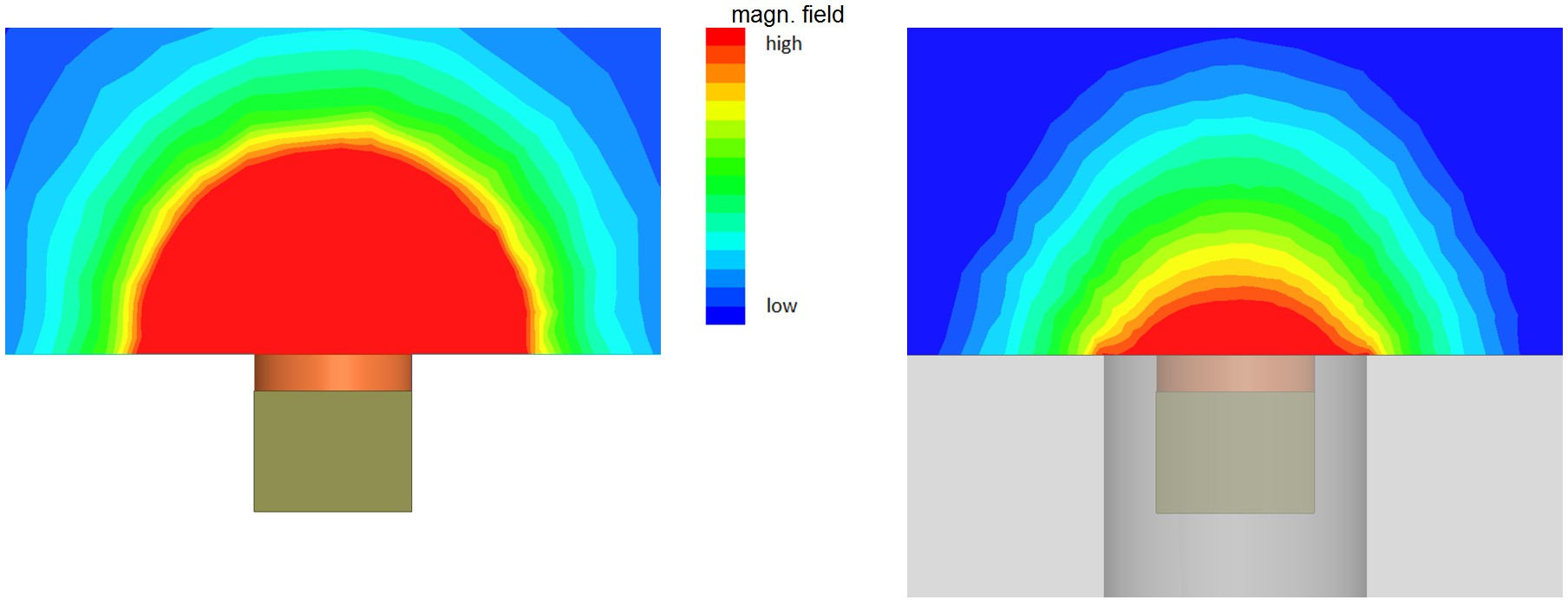 magn. field in metal